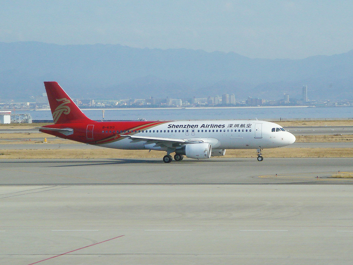 Shenzhen Airlines' Airbus A320 at Kansai International Airport